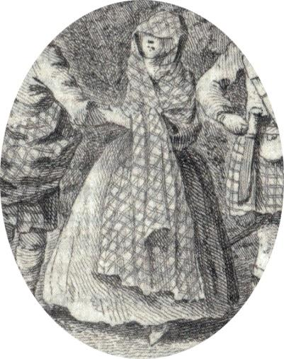 Detail of an engraving showing a Scottish marketplace of the 1700s, showing a woman wearing a waist-width plaid shawl over her head.